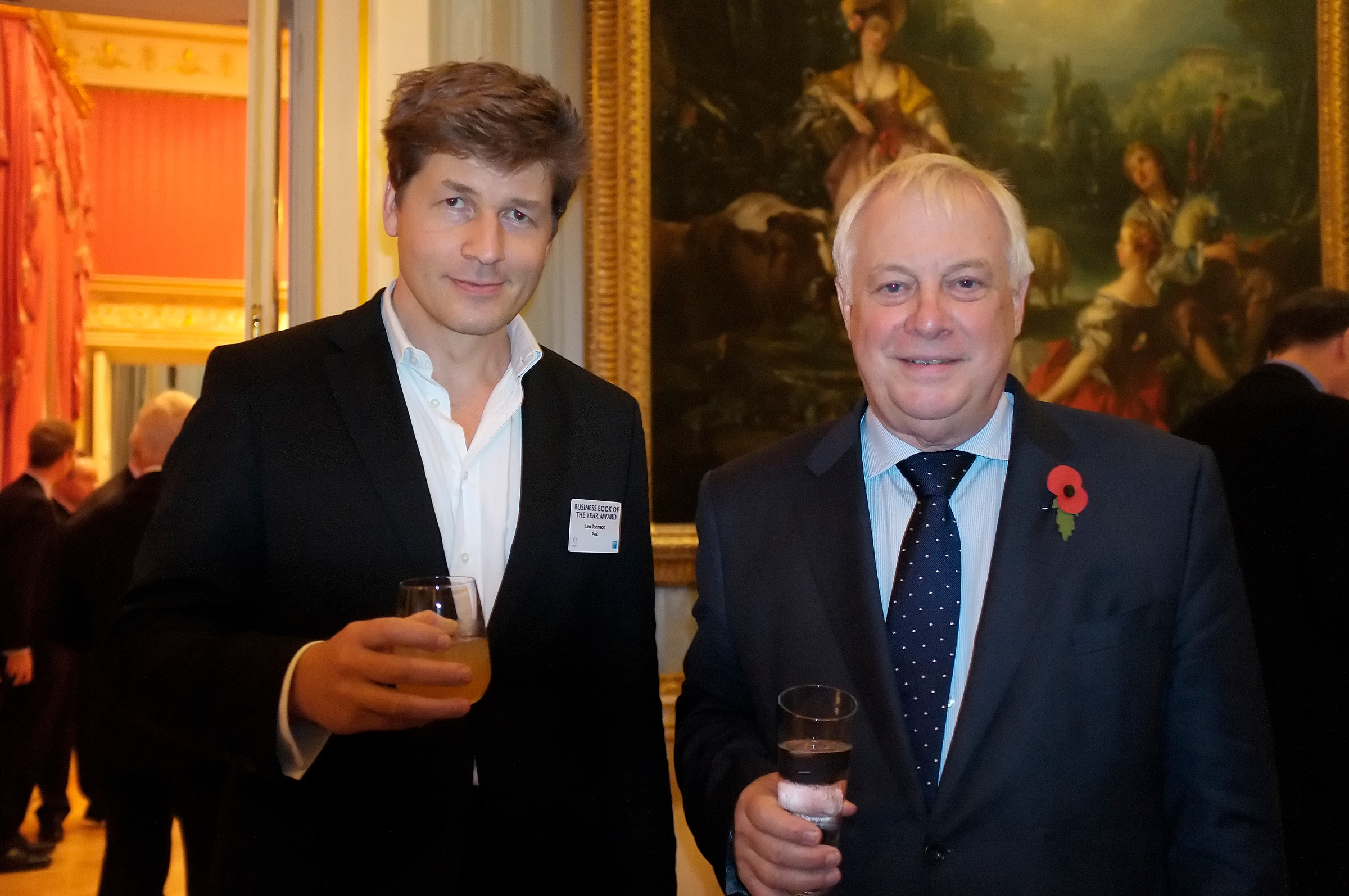 Mr Leo Johnson, Partner at PwC, and Lord Patten of Barnes